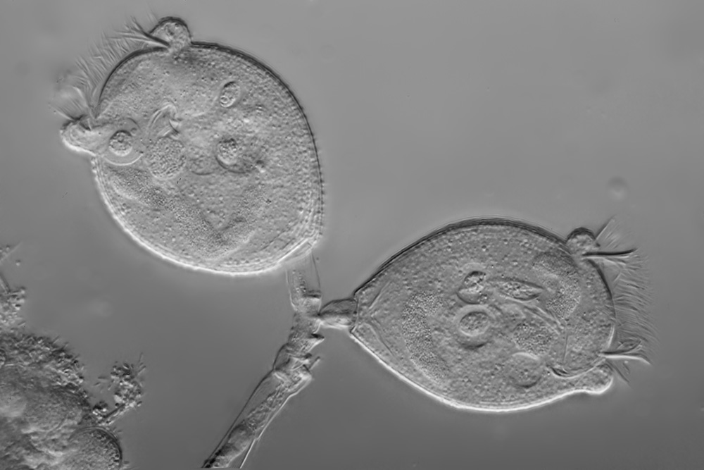 Vorticella species